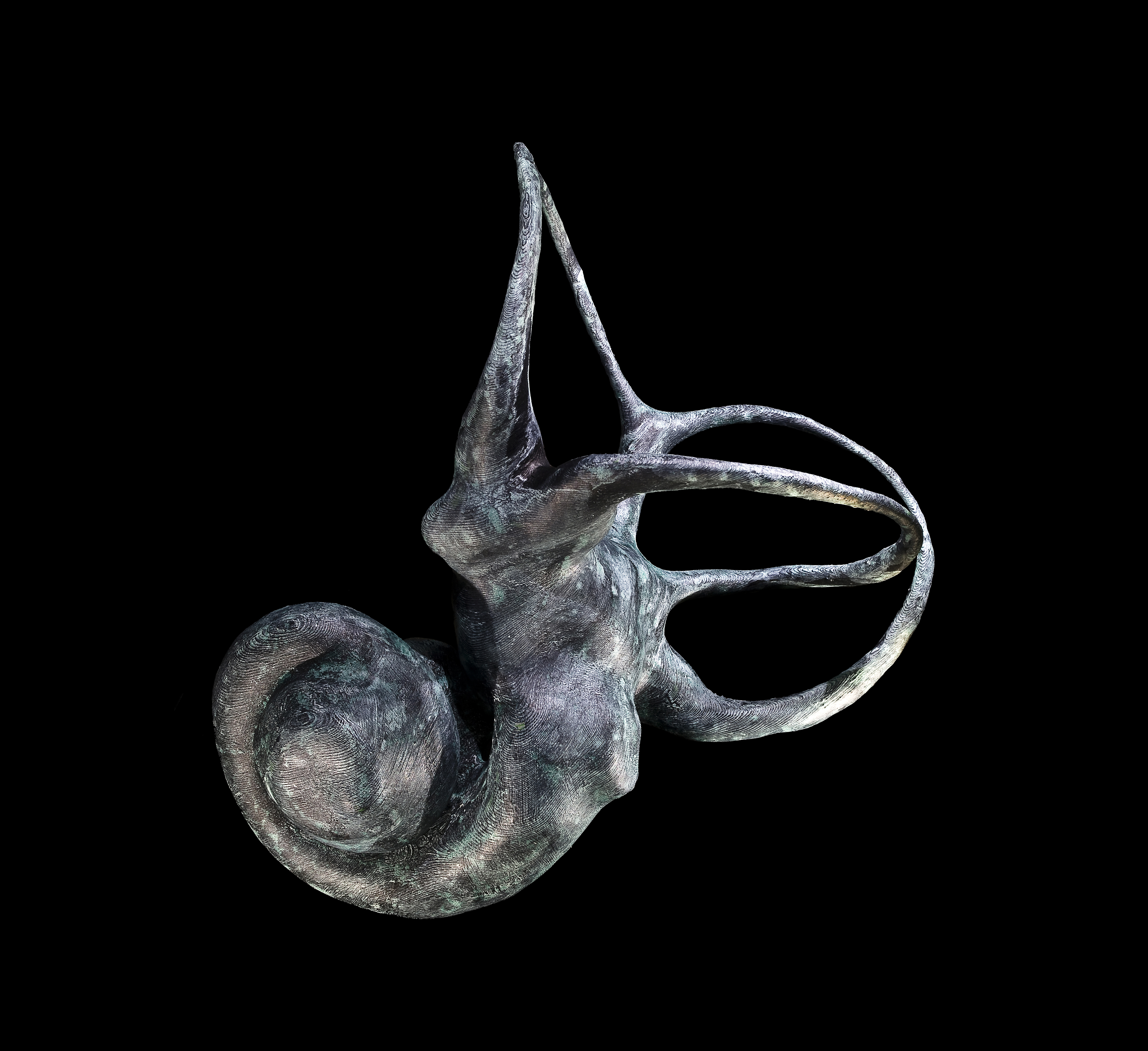 Stereolithography (3D printing) the inner ear of a fossil baboon (2.8millions year) initially 2cm enlarged to 22cm. Specimen of of Anthropology Molecular and Imaging Synthesis of Toulouse.